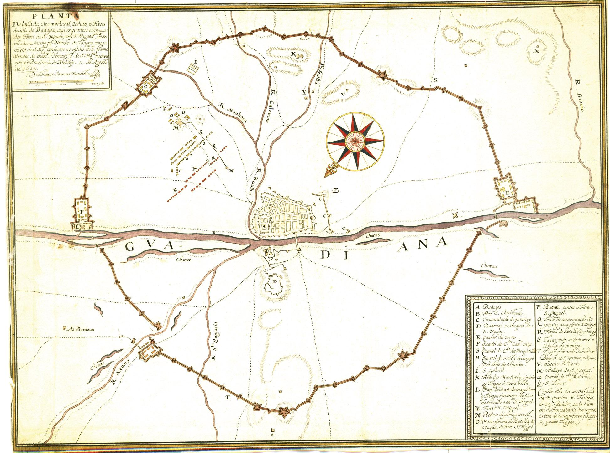 Map of the siege of Badajoz, 1658, by Joao Nunes Tinoco